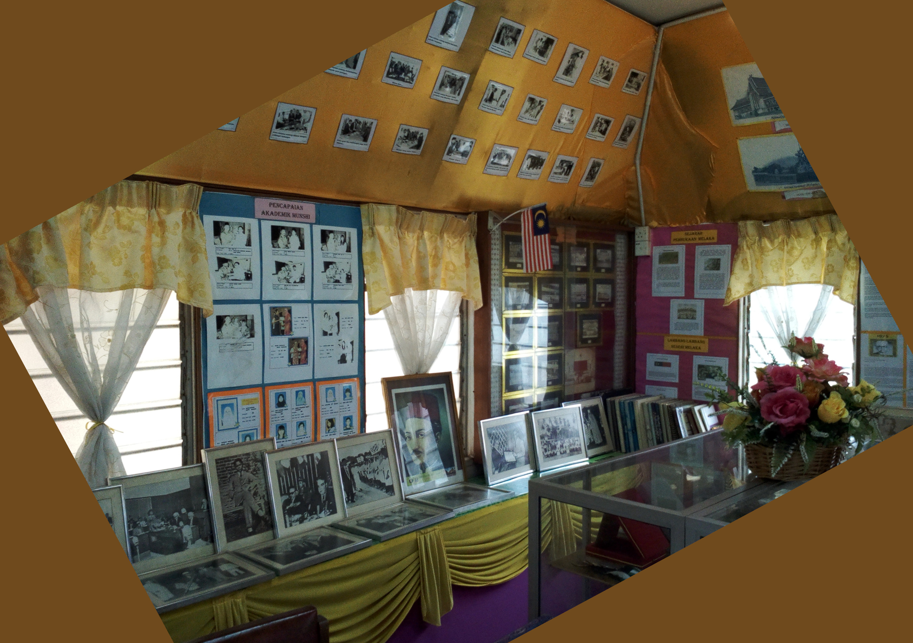 Sudut Ruangan Galeri Warisan